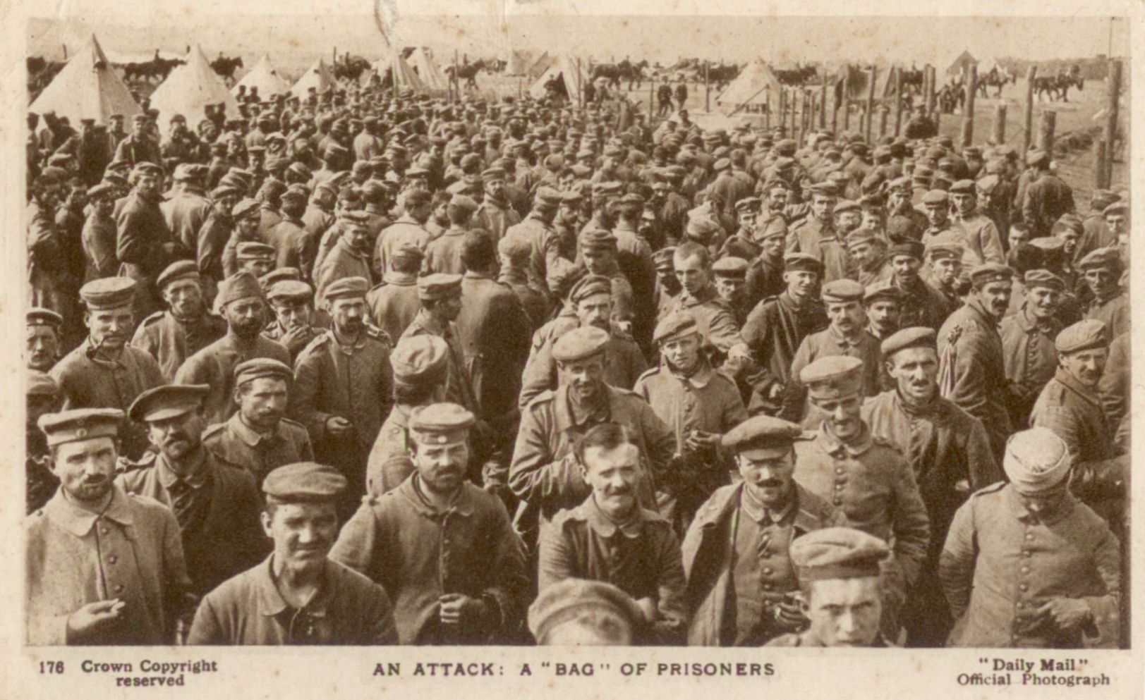 World War I Daily Mail Official War Photograph, Series 22, No. 176, titled "An attack: A "bag" of prisoners". The obverse carries the following information: "Passed by Censor" and "A sight after a successful attack that is as pleasing to British soldiers as a fine flock to a shepherd. These Hun prisoners are being organised and camped".